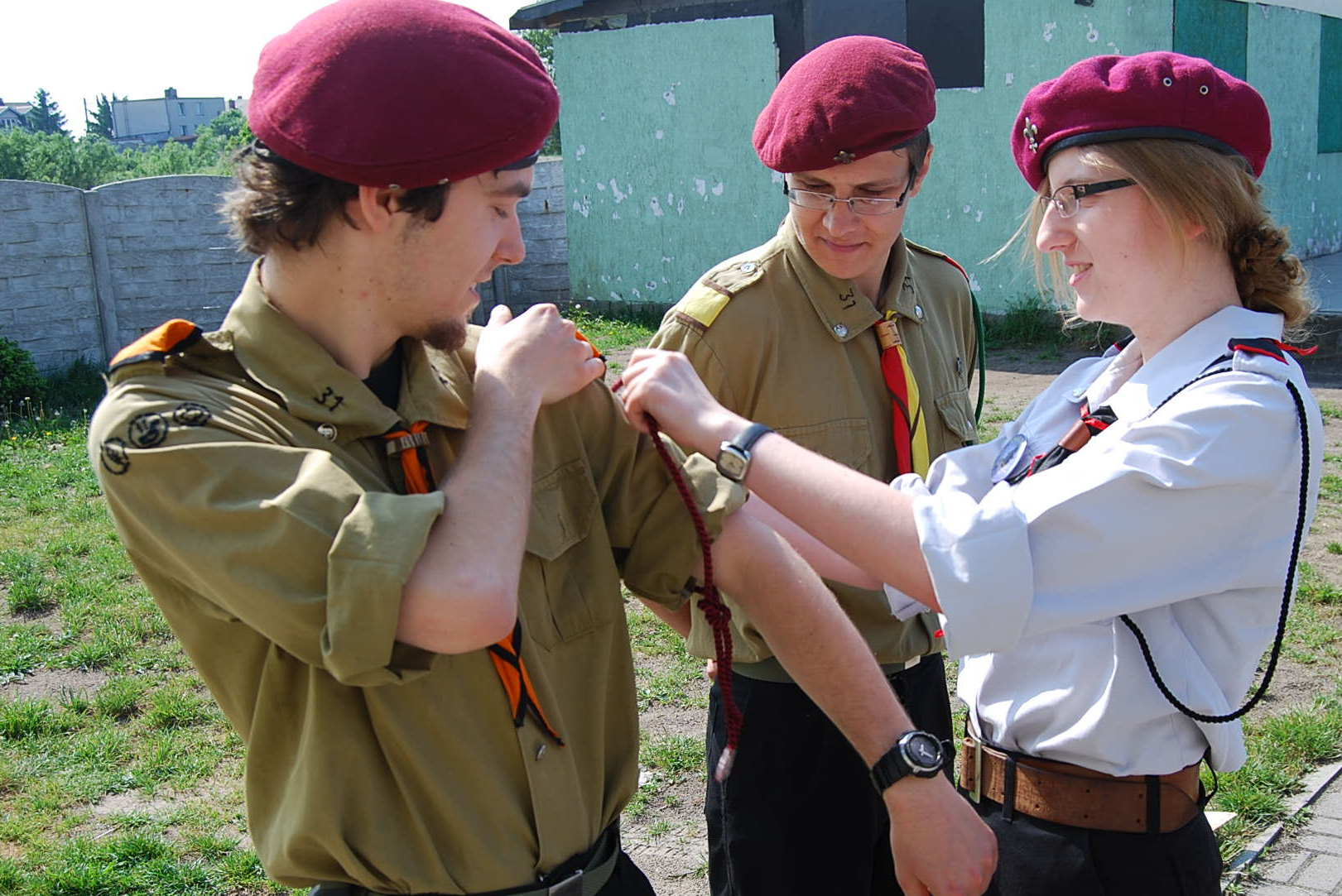 Whistle Lanyard Ceremony in Scouting Organization "Rodło" (Poland). Receipt of whistle lanyard is a sign of acceptance of new responsibilities in the organization (here: the appointment of a new member of the General Council)